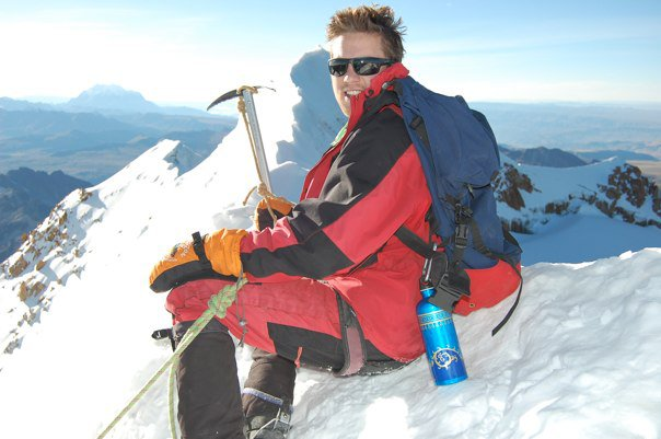 This photo is of Ross Thomas when he reached the peak of Huayna Potossi in Bolivia at 19,974 ft.